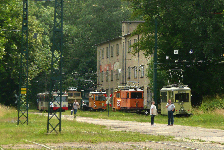 Hanover Tram museum at Wehmingen